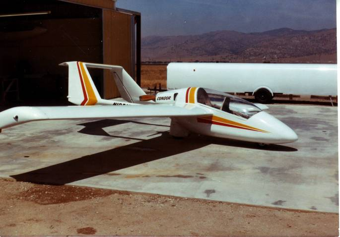 Aircraft Designs, Inc Condor self-launching aircraft on ground